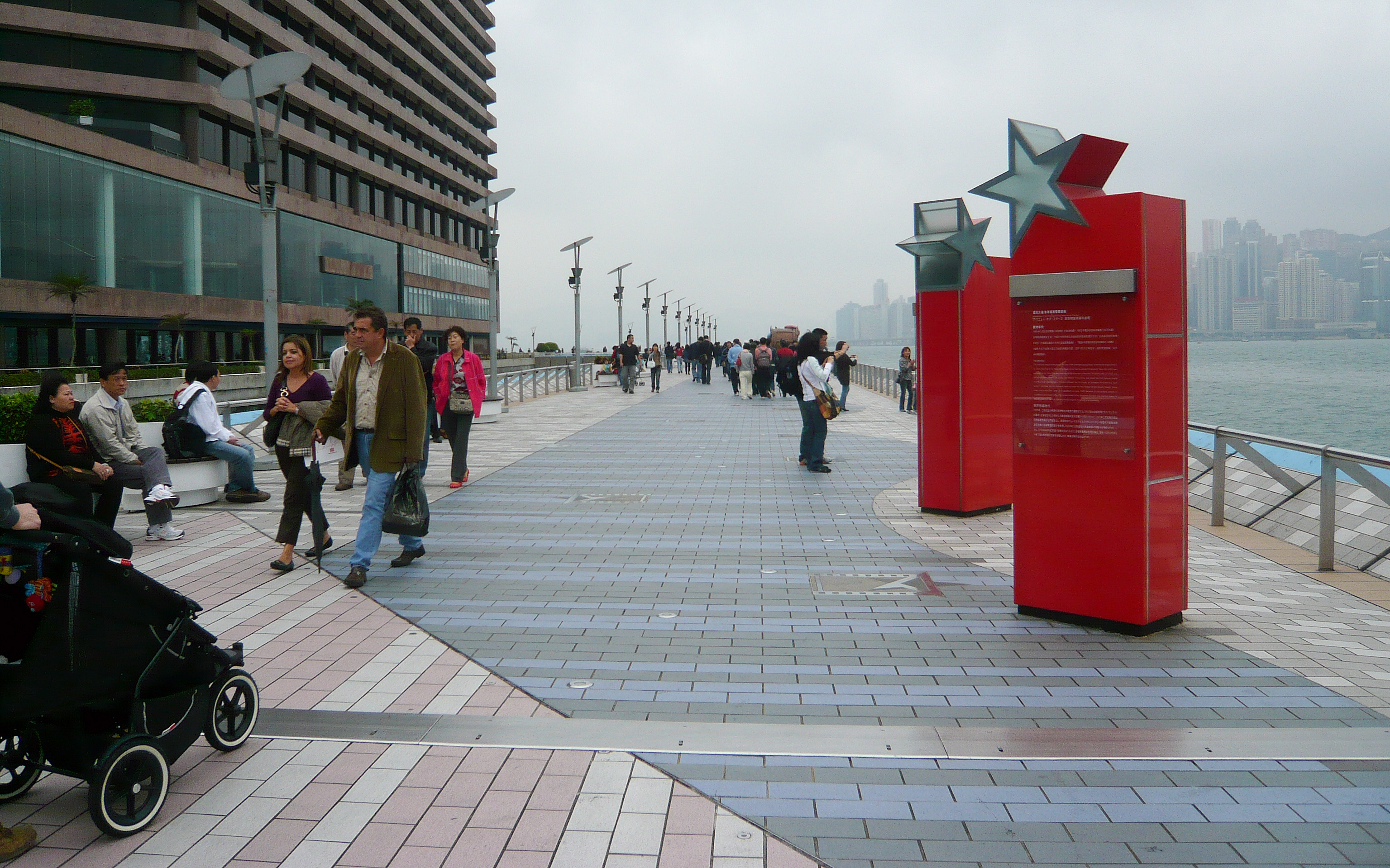 Avenue of Stars, Hong Kong